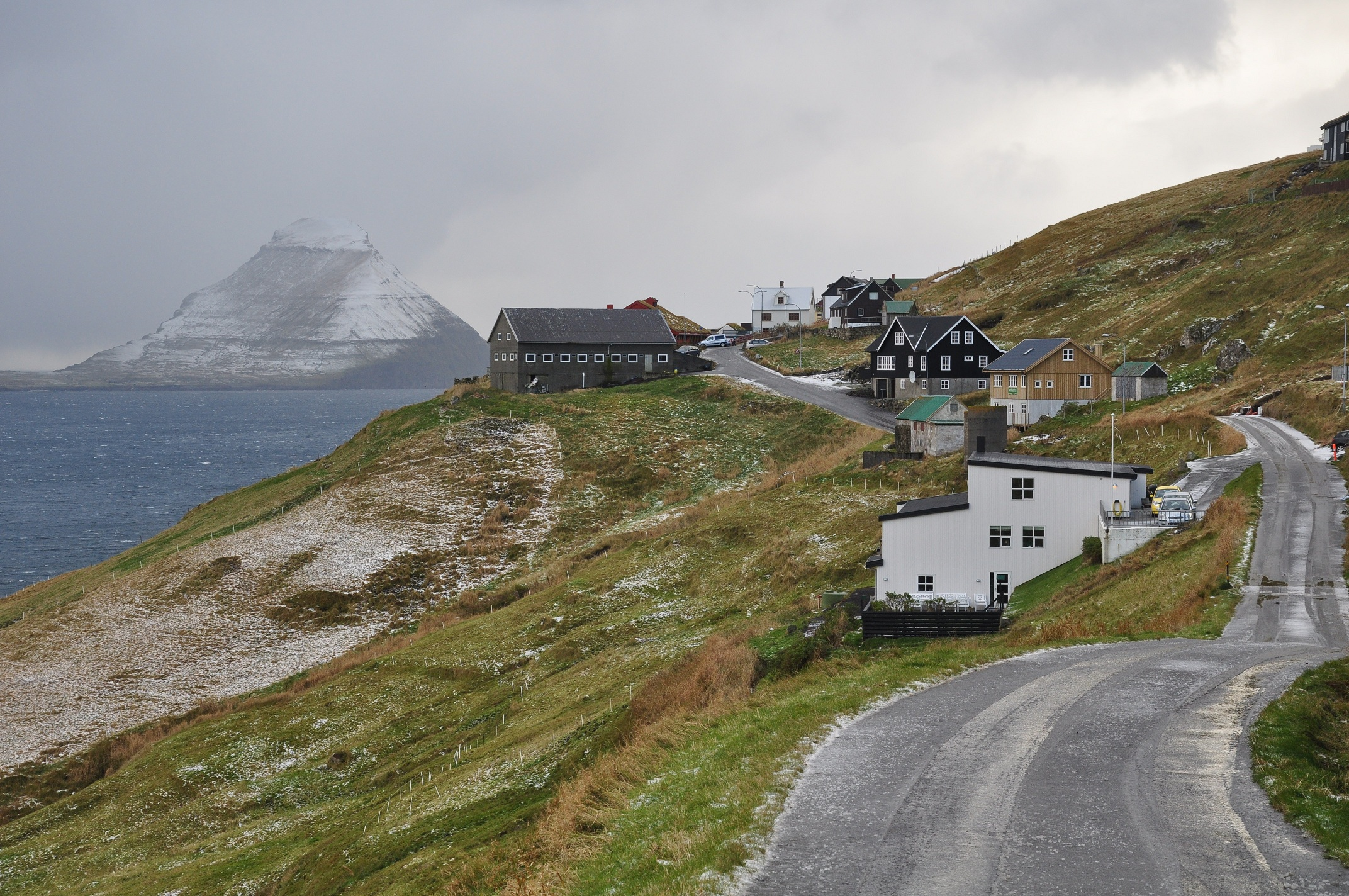 Norðuri á Heyggi, a street in Velbastaður, a village on Streymoy (Faroe Islands). At left the island Koltur.